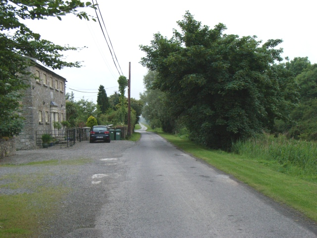 Grand Canal Towpath at Ardclough, Co. Kildare, near to Henry Bridge, Ponsonby Bridge, Baronrath and Oughterard, Kildare, Ireland. On the left is the old Ardclough National School, where in 1916 a teacher was accused of anti-British teaching in what became known as the Ardclough Sedition Case.